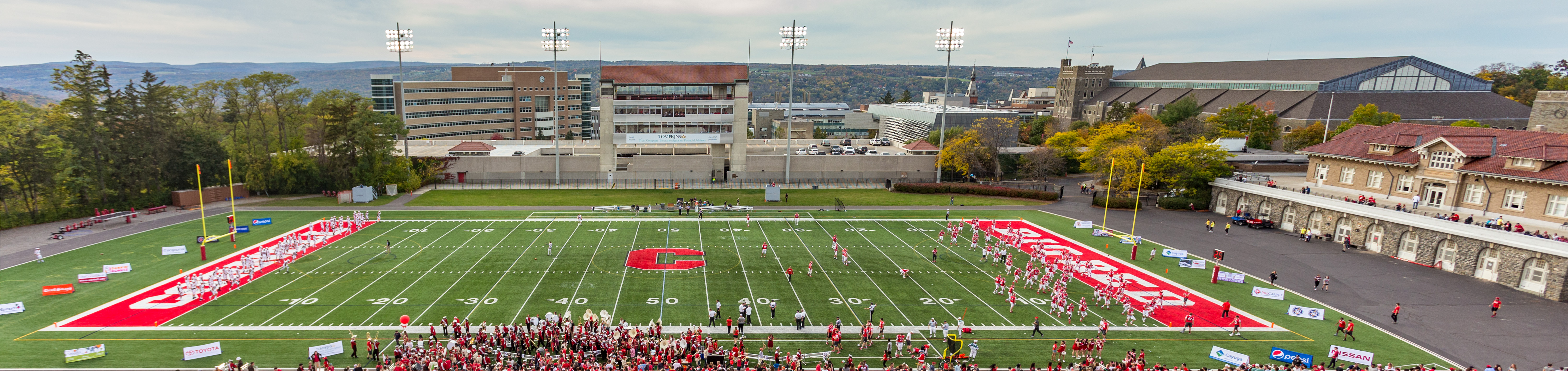 Wide view of Schoellkopf Field, Cornell University.